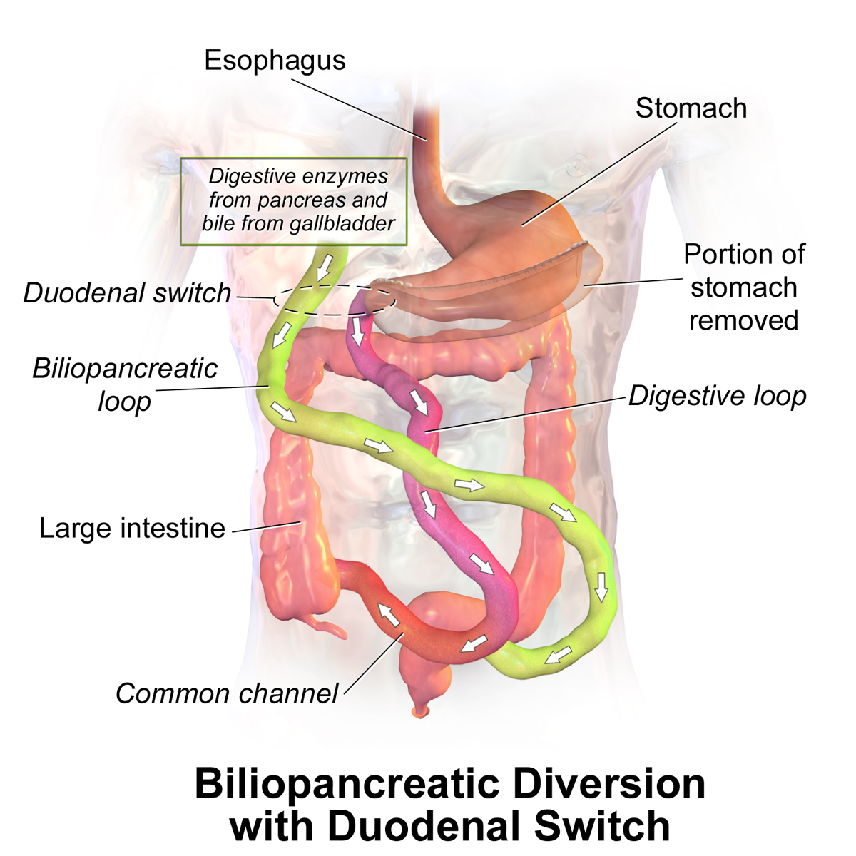 Biliopancreatic Diversion. See a full animation of this medical topic